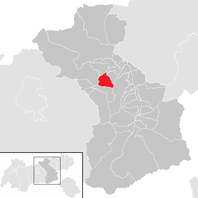 District Schwaz